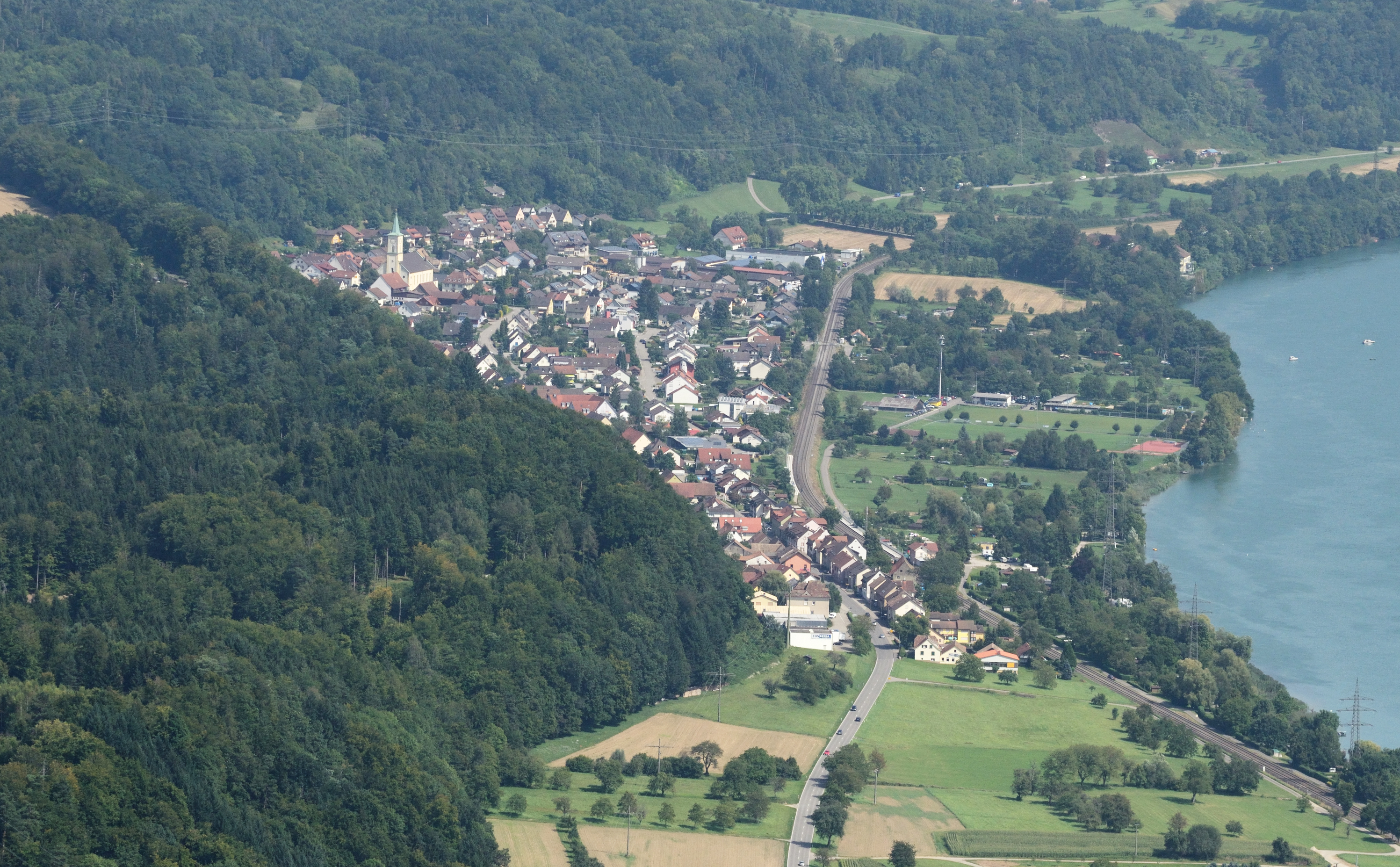 aerial view of Schwörstadt